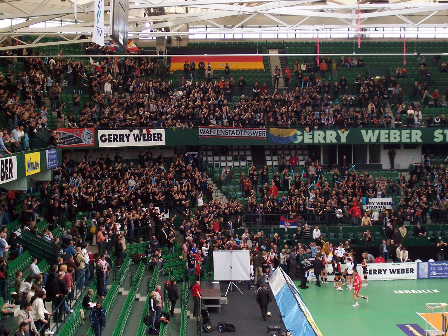 supporters of VfB Suhl at the German volleyball cup final in the Gerry-Weber-Stadion in Halle